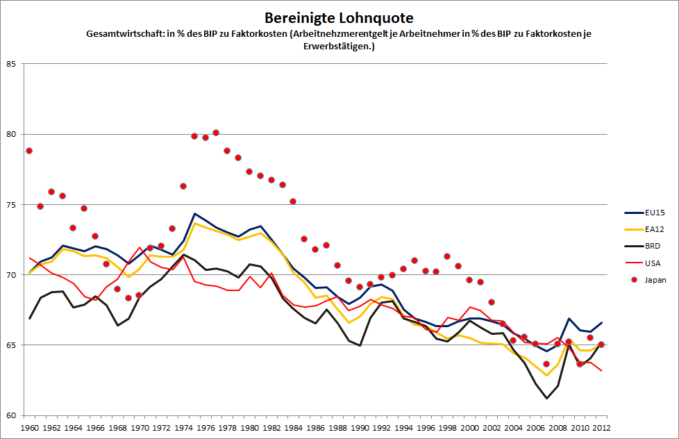 Adjusted wage share total economy: as percentage of GDP at current factor cost (Compensation per employee as percentage of GDP at factor cost per person employed.) Data are from ameco data base of the European Commission services